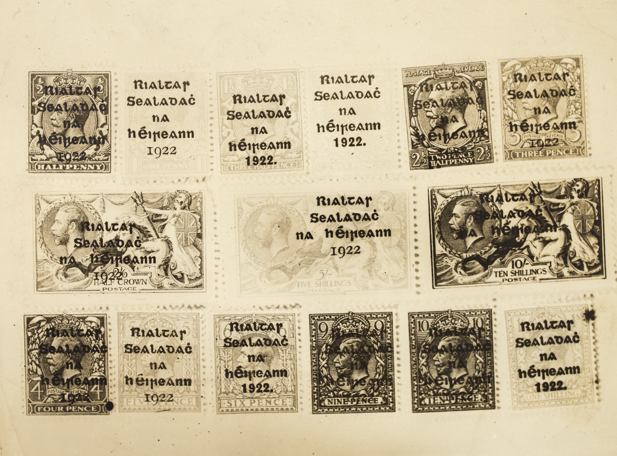 15 British stamps overprinted as issued for the new Irish state in February 1922 NLI Ref.: HOG226 You can also view this image, and many thousands of others, on the NLI’s catalogue at